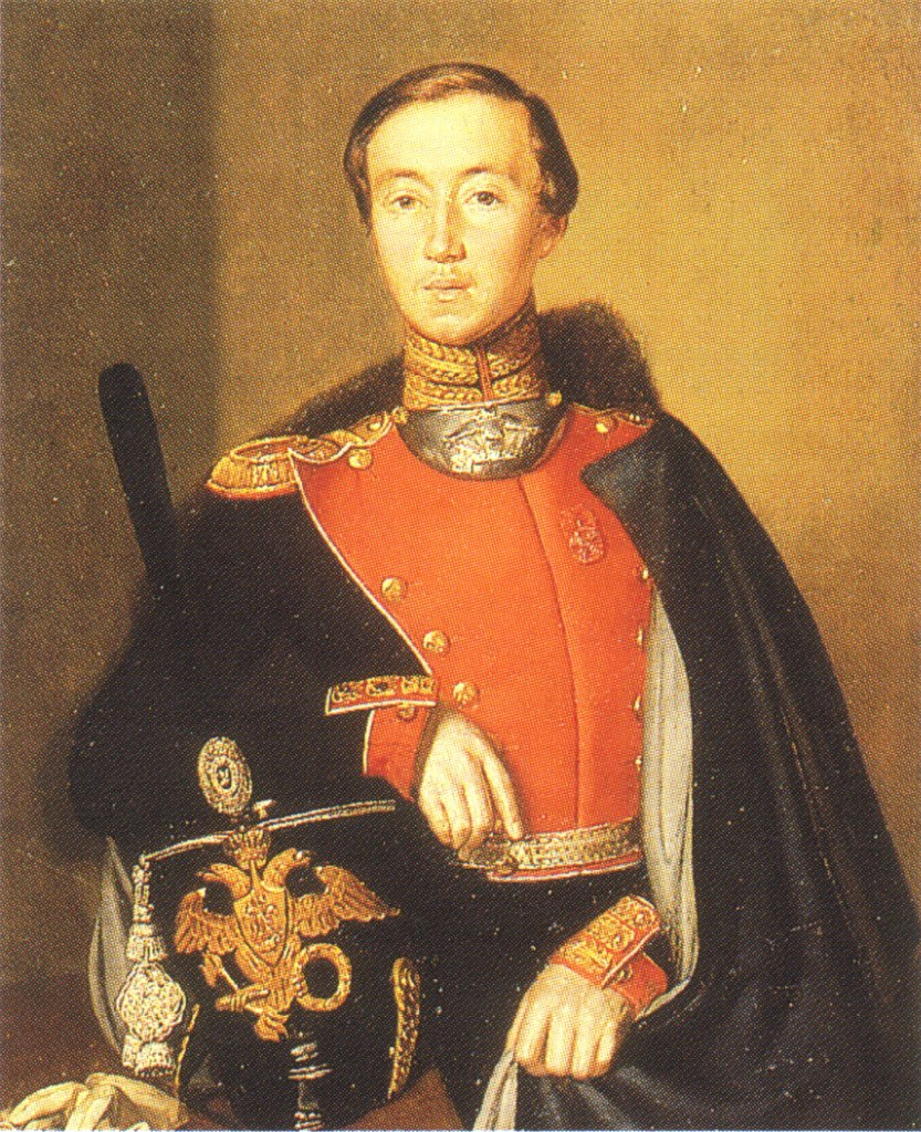 Gasford Vsevolod Gustafovich